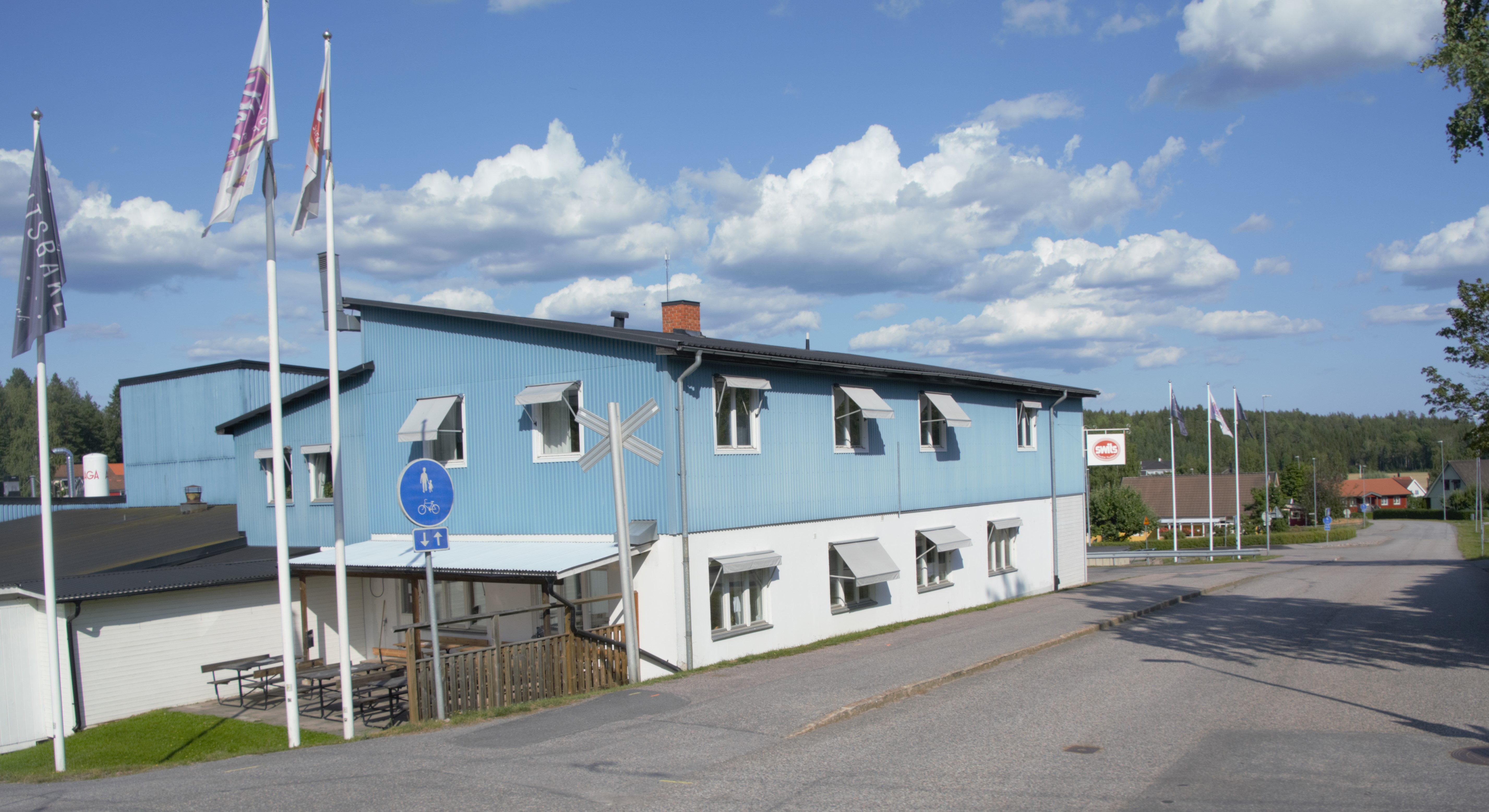 Switsbake Int AB factory and head office at Malmköping, Sweden